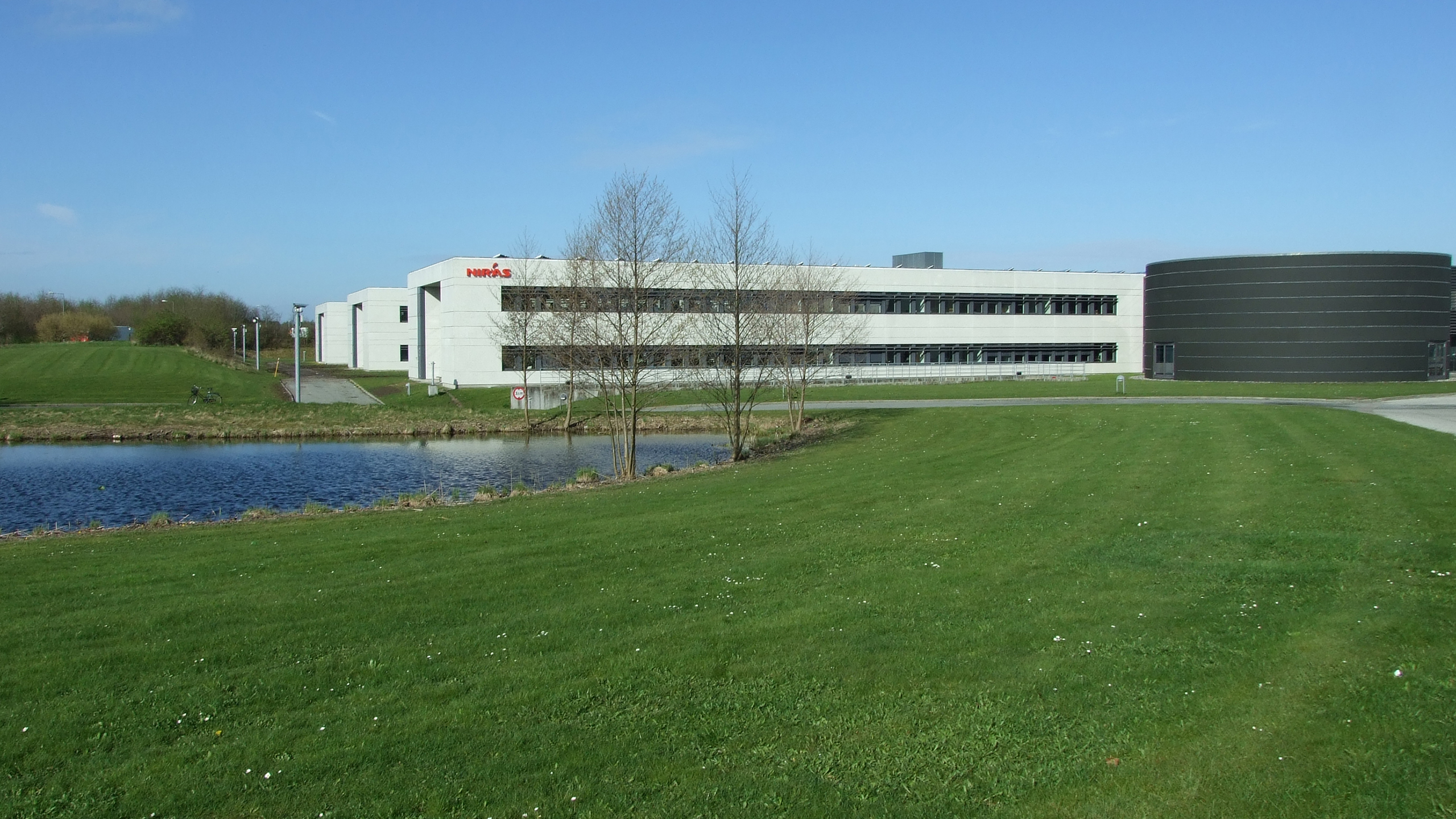 The NIRAS headquarters are situated in Blovstrød, Denmark.